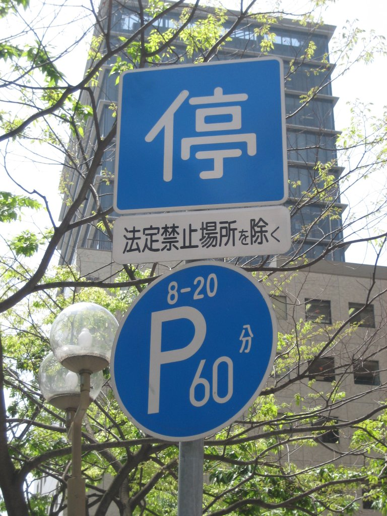 Stopping OK except for those places forbidden by law, Parking for 60 minutes between 8am and 8pm street sign in Japan. (Text:"Tei - Hōtei kinshi basho wo nozoku")